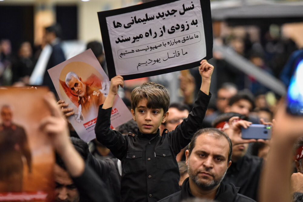 A boy holding a paper stating "we are the killers of the Jews" in the mourning ceremony for Qasem Soleimani at Mosalla of Tehran